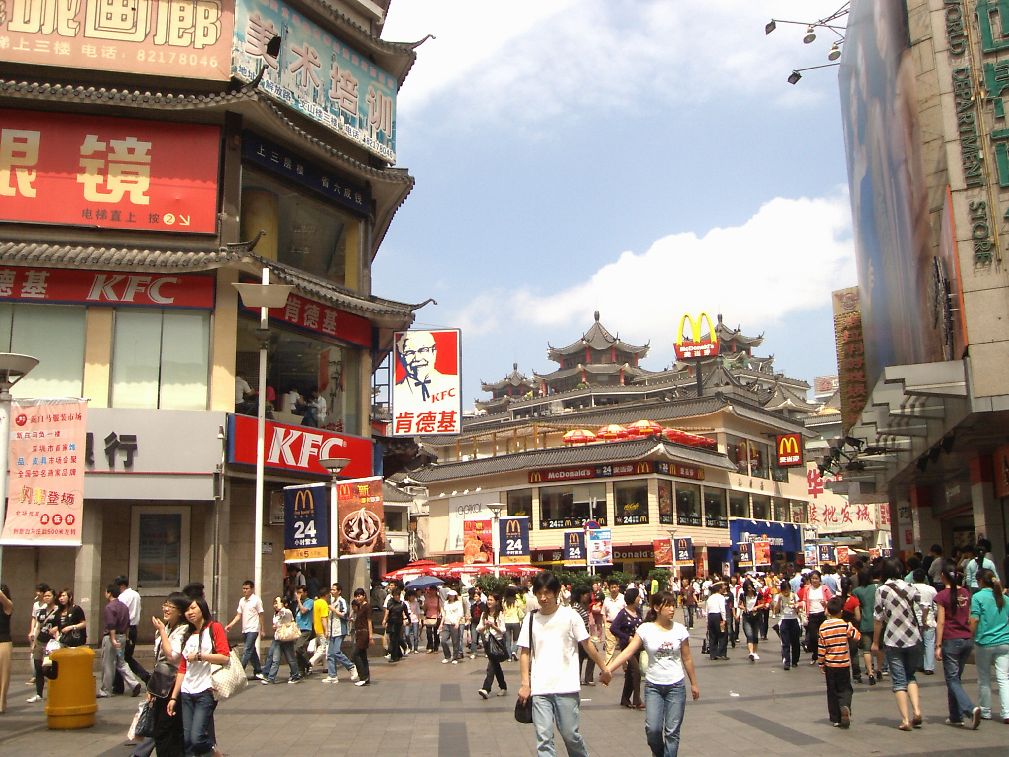 Dongmen, Luohu, Shenzhen